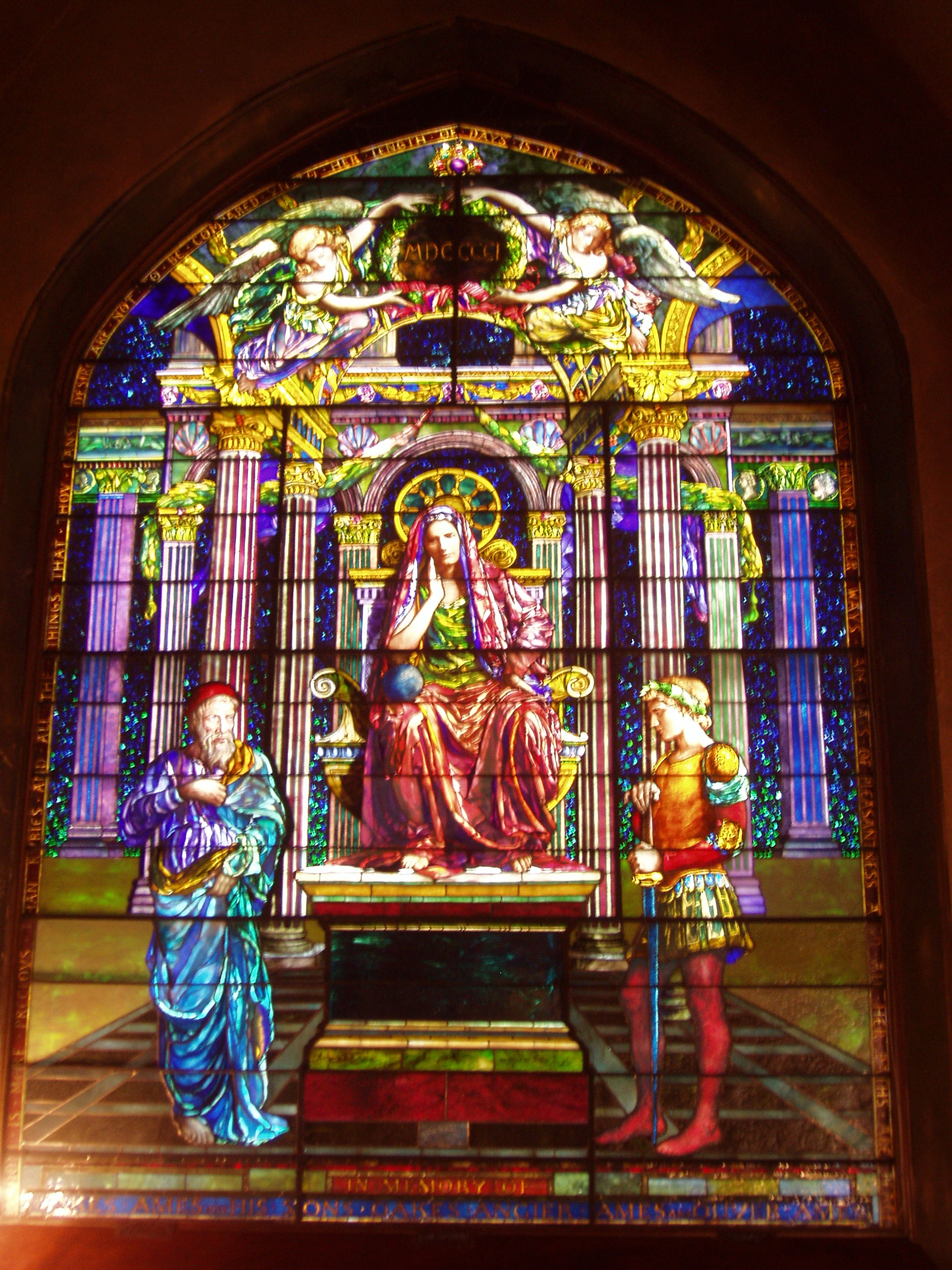 Photograph of a stained glass window entitled "Wisdom Window" by John LaFarge (1835-1910), made 1901, in the Unity Church, North Easton, Massachusetts, USA. Window restored by Victor Rothman for Stained Glass, Yonkers, NY